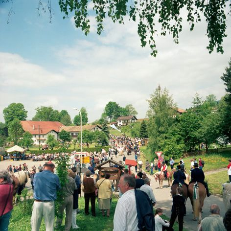 Tradition in Bavaria (Germany). Pfingstritt Kötzting. Photograph from the series Homeland, published in: Bohnenstengel, A. (2002): Bayern, Page 24–27